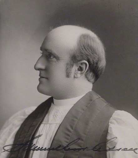 1899 portrait photo by Gibson Art Galleries of Episcopal bishop Samuel Cook Edsall with his signature